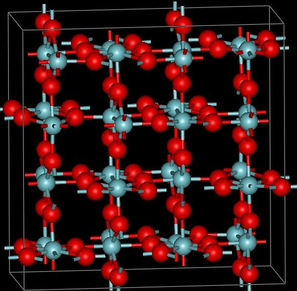 NbO2 structure. Red atoms are oxygens. Journal = JOURNAL OF THE LESS-COMMON METALS, Year = 1982, Volume = 87, Page = 1–19, Title = ETUDE DU COMPORTEMENT DU NIOBIUM SOUS VIDE PAR DIFFRACTION DES RAYONS X A HAUTE TEMPERATURE, Authors = Pialoux A., Joyeux M.L., Cizeron G.